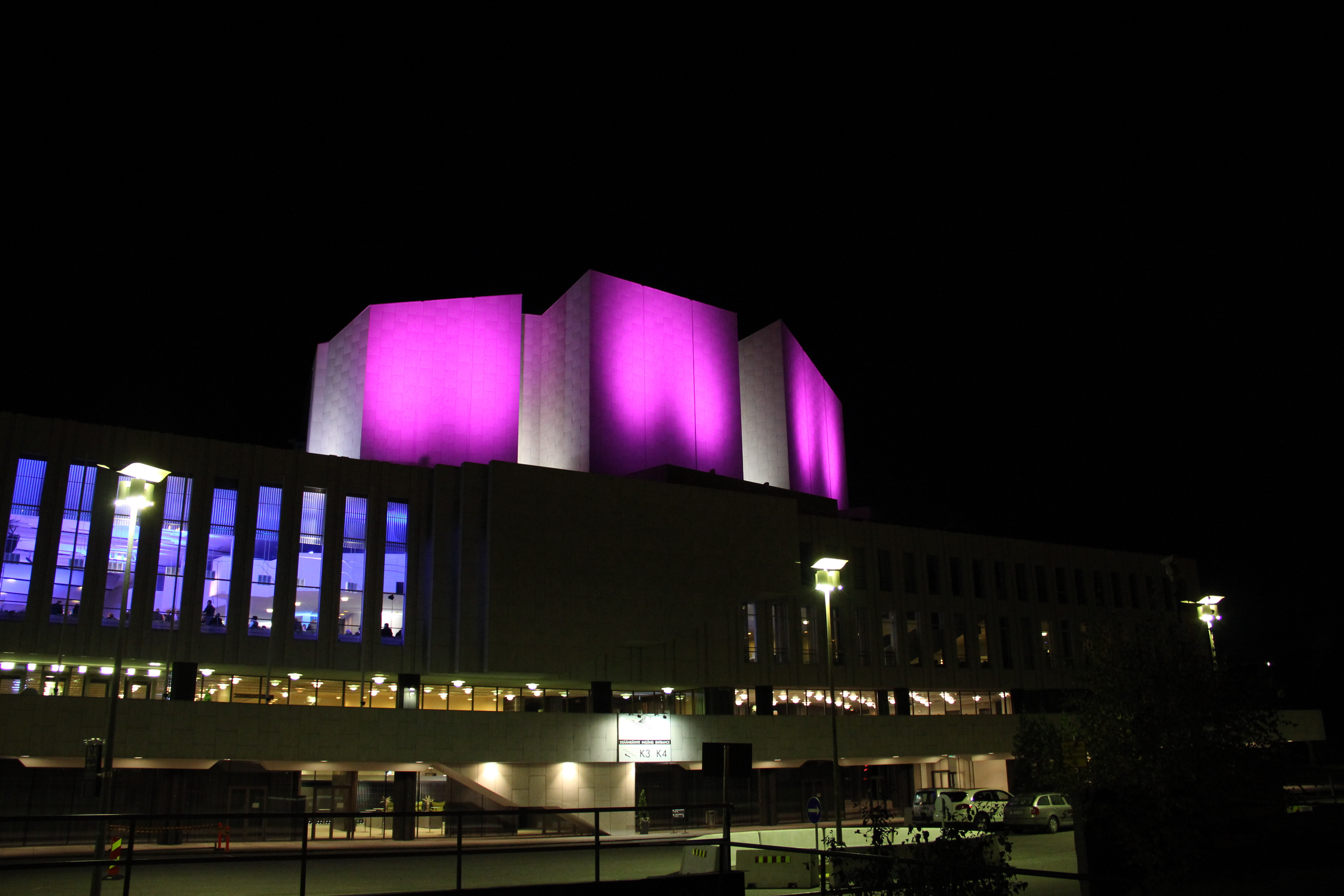 Finlandia Hall, Helsinki, Finland. It was illuminated pink to support the first ever UN International Day of the Girl Child on 2012-10-11.